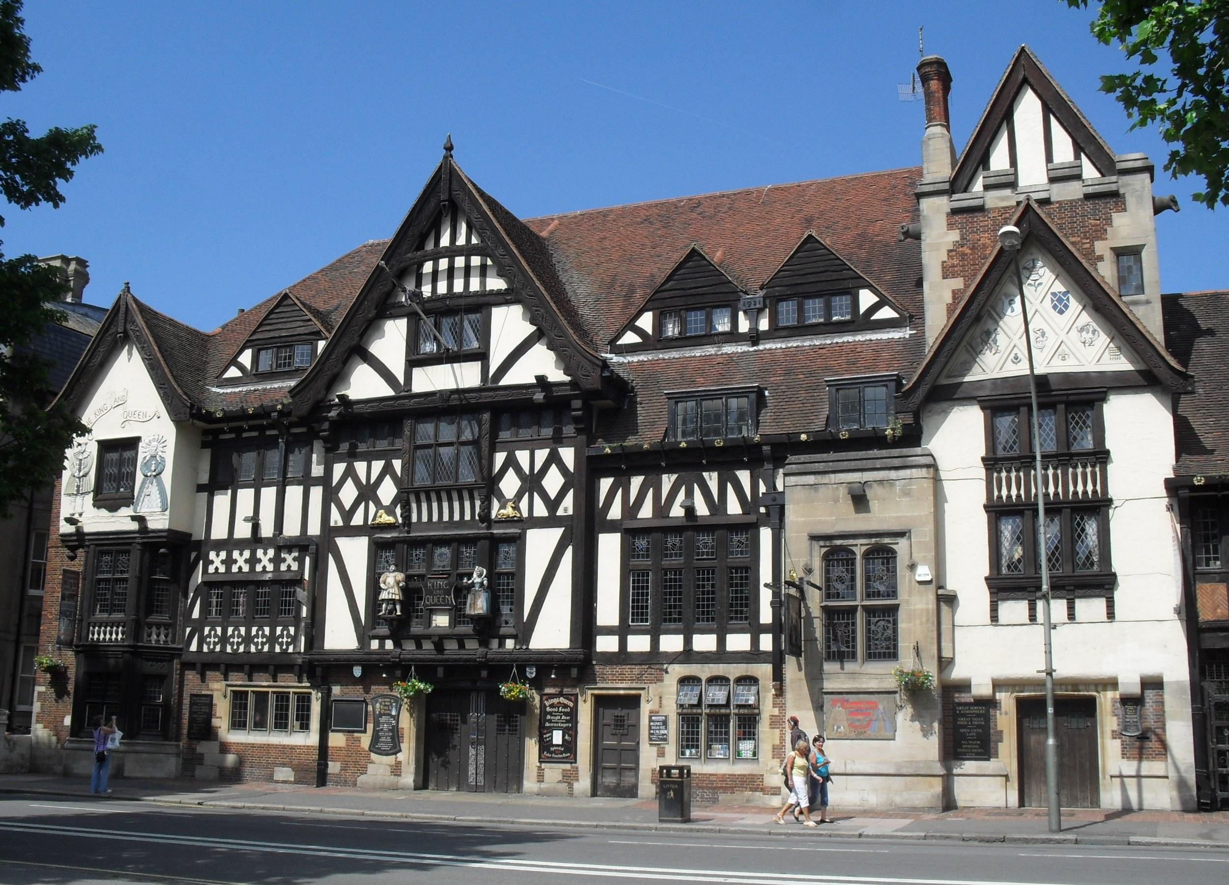 The King and Queen, Marlborough Place, Brighton, City of Brighton and Hove, England. An 18th-century pub rebuilt in extravagant Mock Tudor style by local architects Clayton & Black in the early 1930s. Listed at Grade II by English Heritage (NHLE Code 1381770)